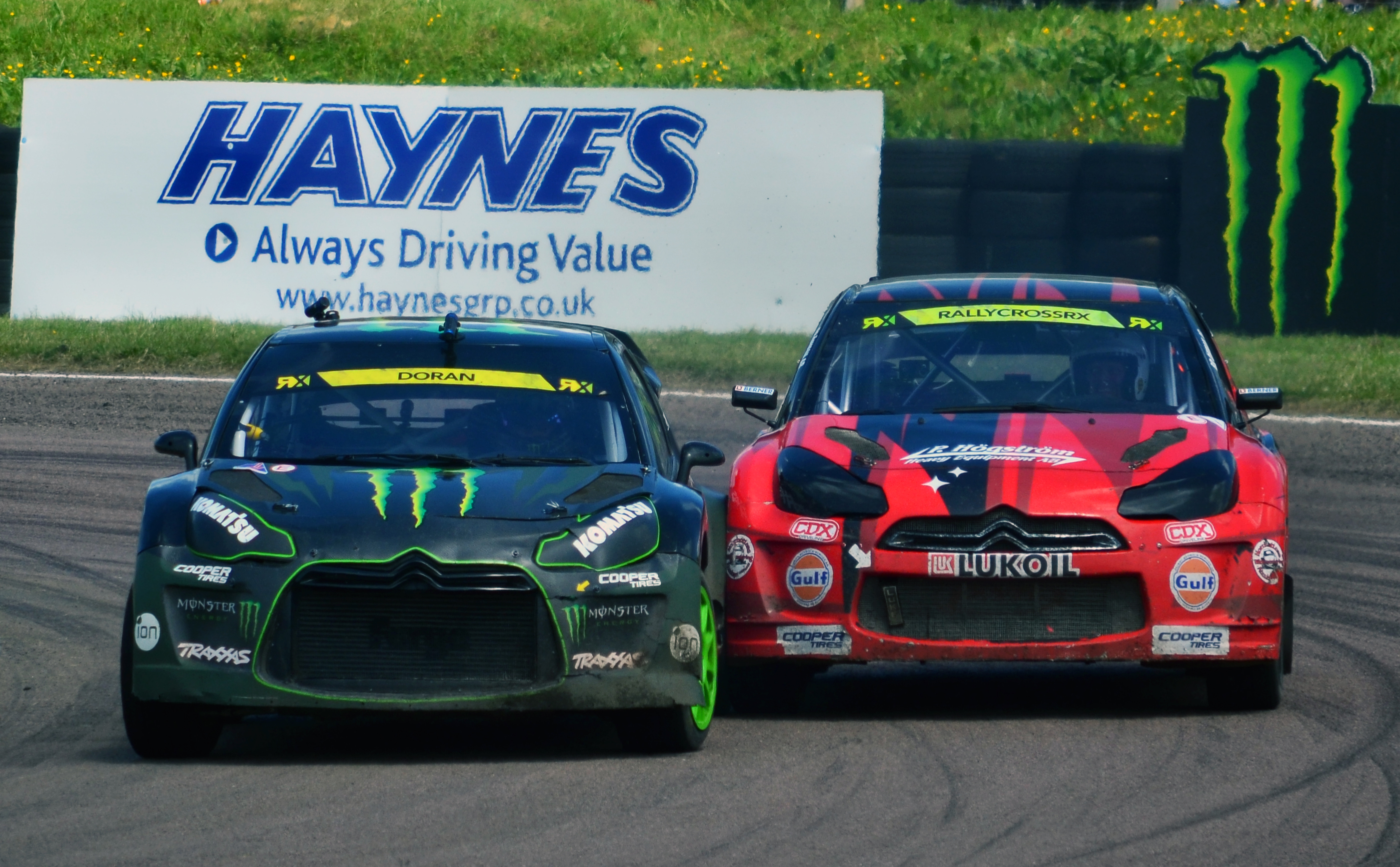 Rallycross drivers Liam Doran and Mats Öhman go wheel to wheel through the North Bend Hairpin at Lydden Hill during a heat race of round 2 of the 2014 FIA World Rallycross Championship.